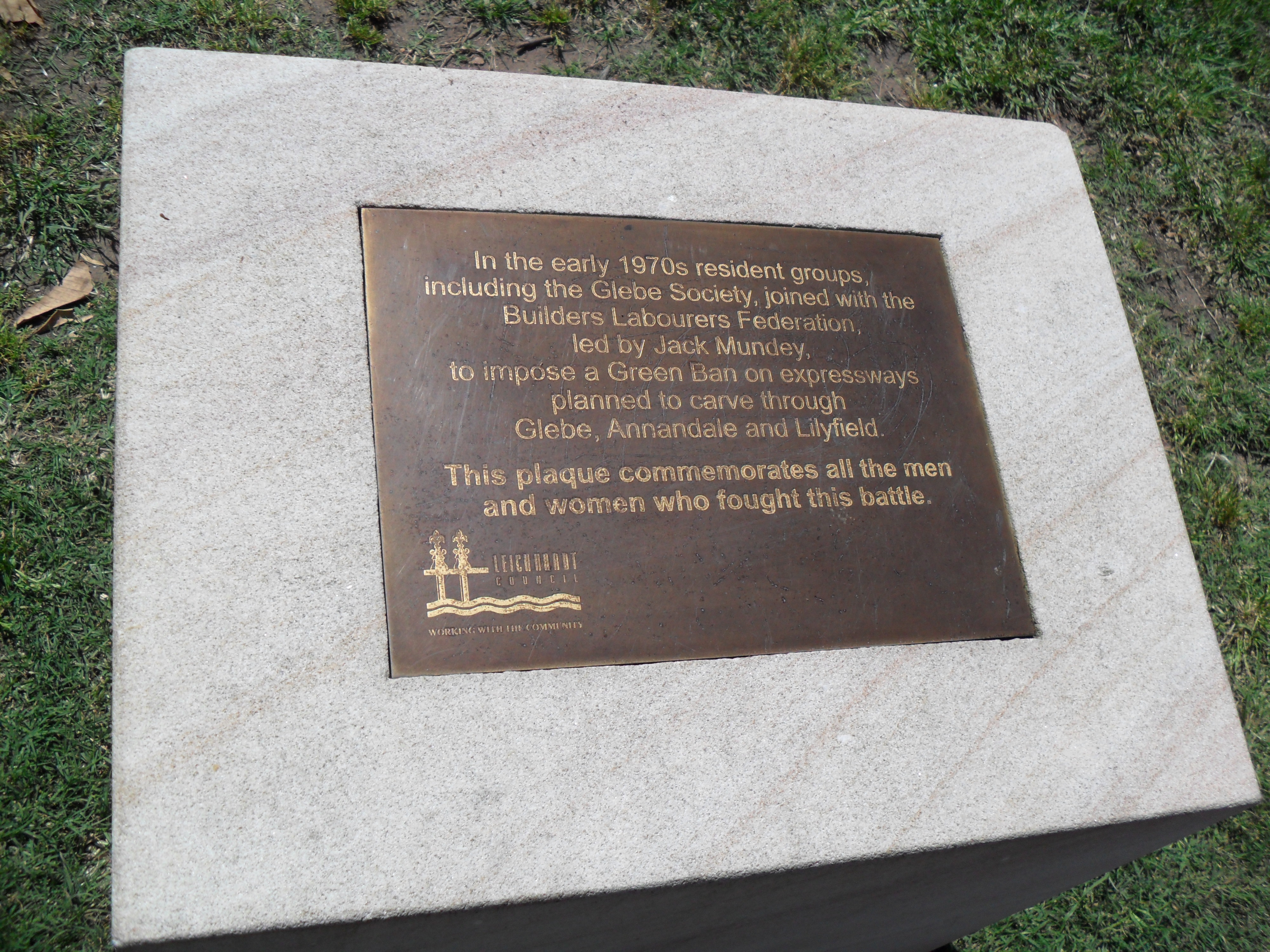 Plaque by Johnstons Creek